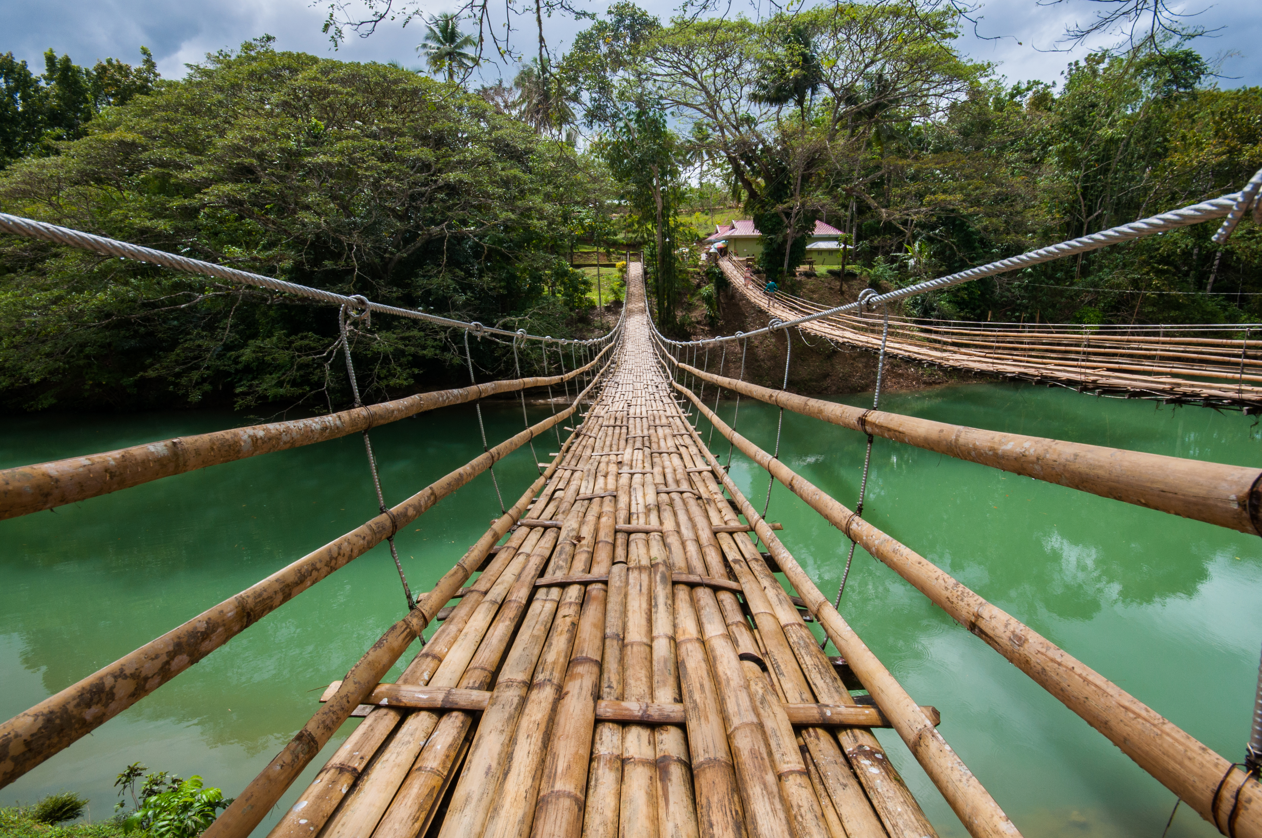 This bridge is one of the main attractions on Bohol Island, Philippines.